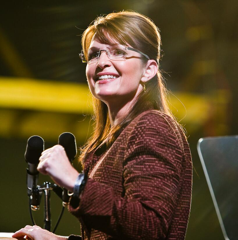 This is merely a cropped version of an image already uploaded.